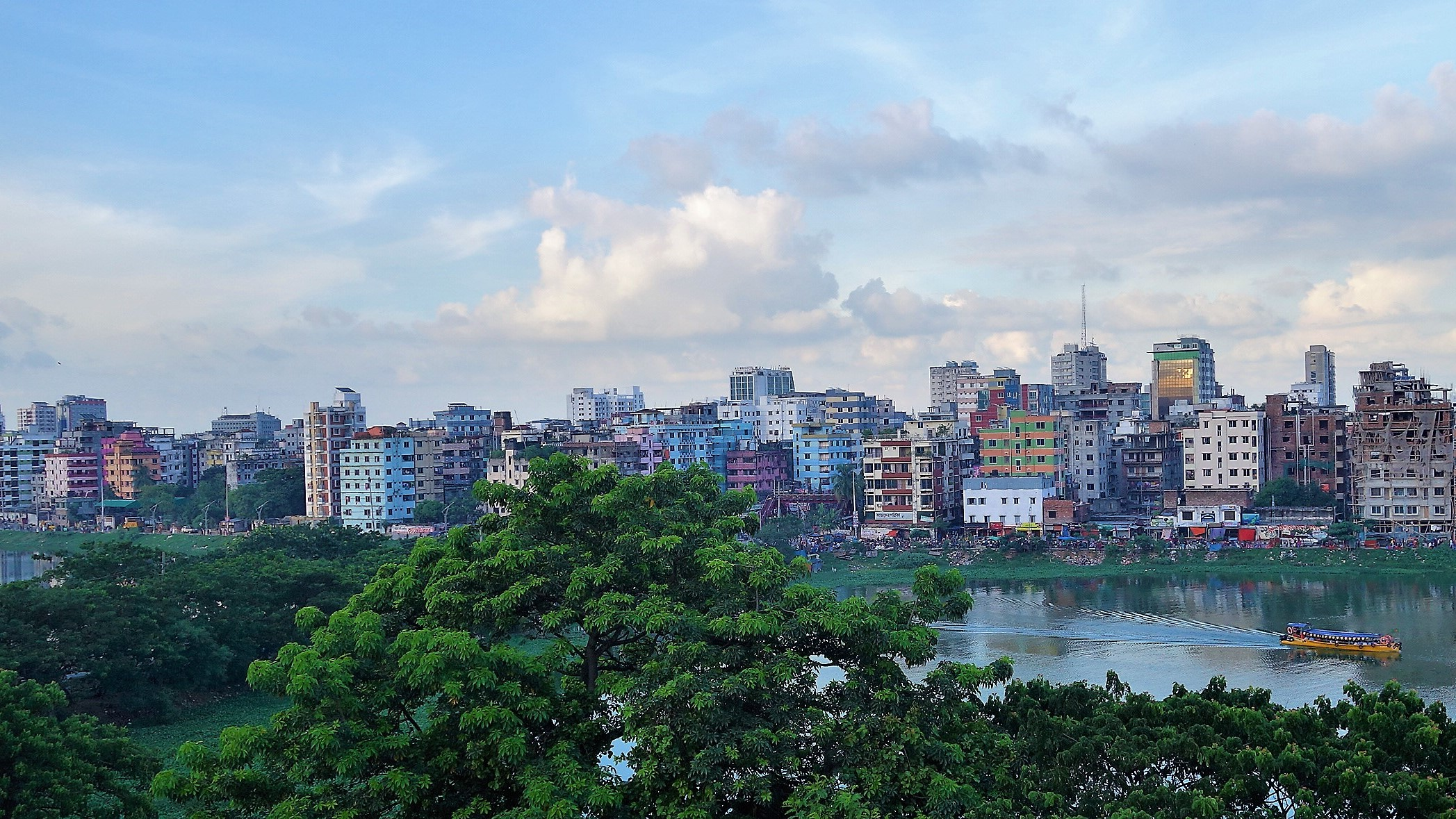 Late afternoon photo of South Badda overlooking Gulshan Lake